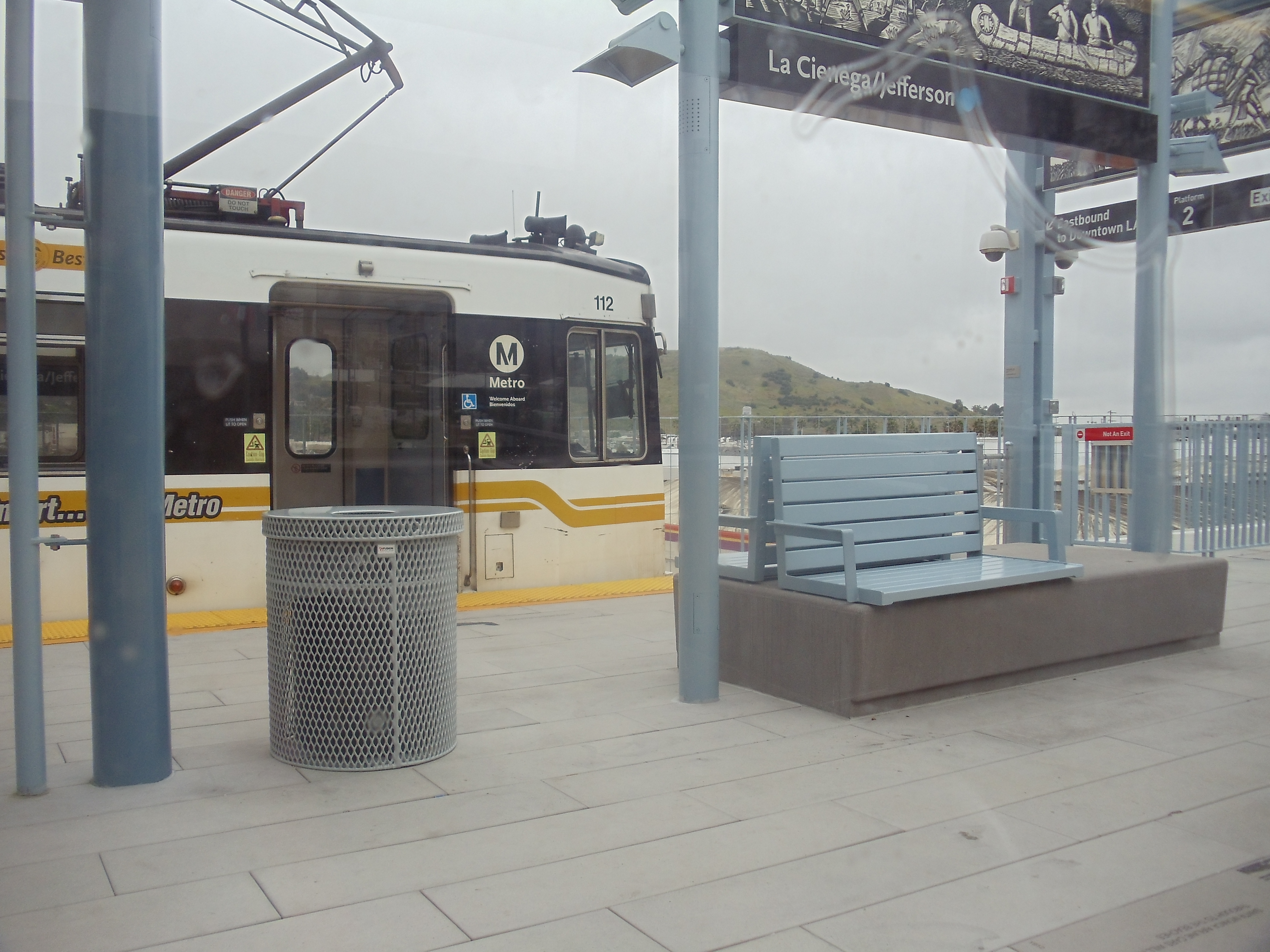 Expo Line train arriving at the station.